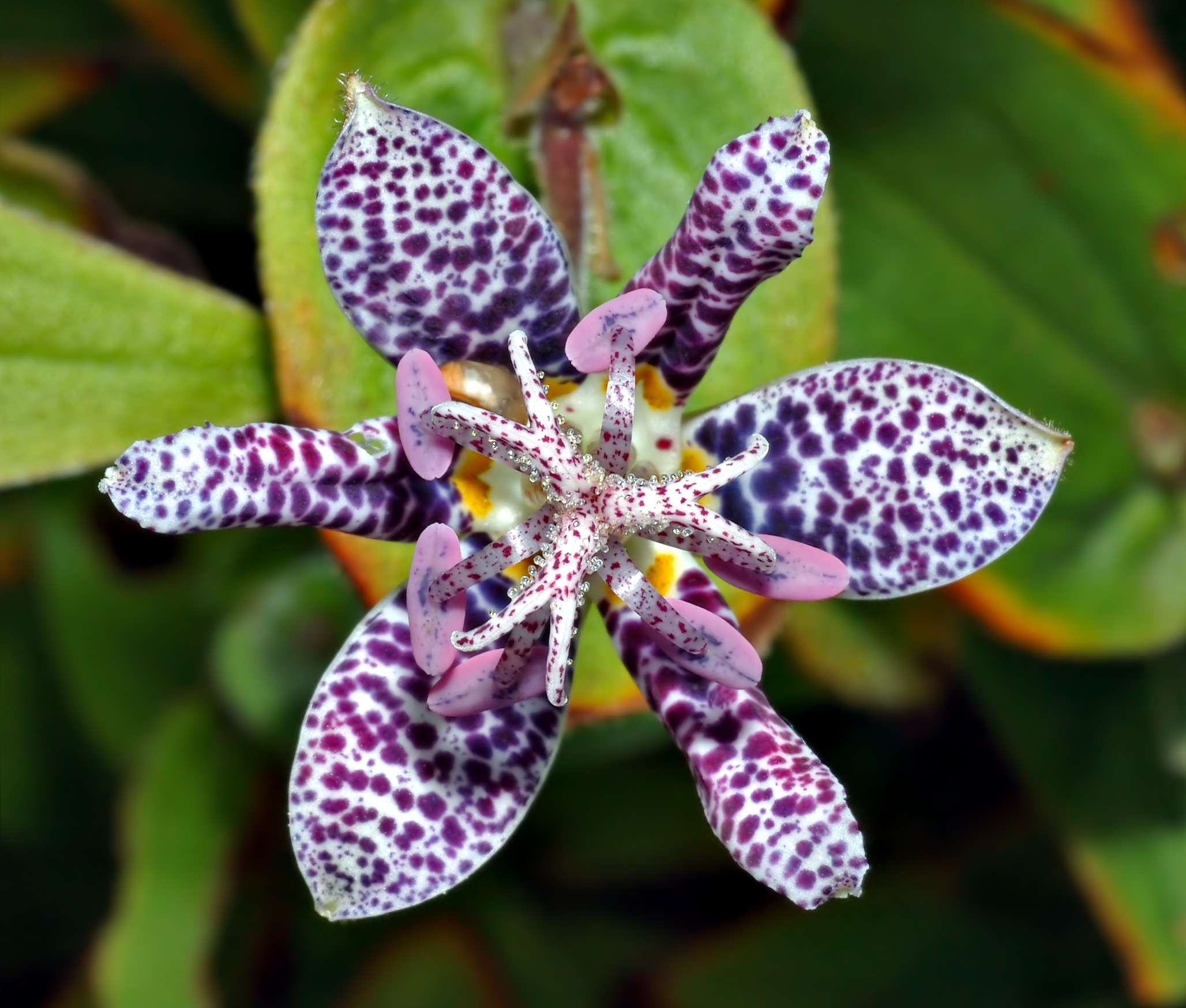 This image shows a Hairy Toad Lily (Tricyrtis hirta).